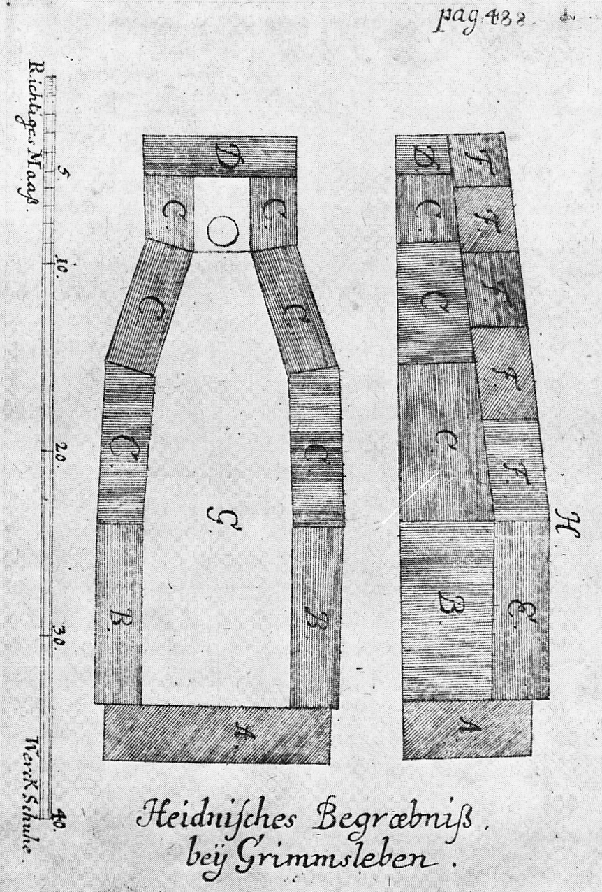 Plan of the Dolmen Grimschleben 1 ("Heringsberg"), from Caspar Abel: Teutsche und Sächsische Alterthümer, Der Teutschen, und Sachsen, alte Geschichte, und Vorfahren, Nahmen, Ursprung, und Vaterland, Züge, und Kriege ... Aus den besten Schrifften und rechten Urkunden … vorgetragen, und … erläutert, Insonderheit aber der Hohe Stamm, des Königlichen … Hauses Braunschweig-Lüneburg, bis auf unsre Zeit ausgeführet … Samt einer noch nie gedruckten Nieder-Sächsischen uhralten Chronick. Teil 2, Braunschweig 1730.